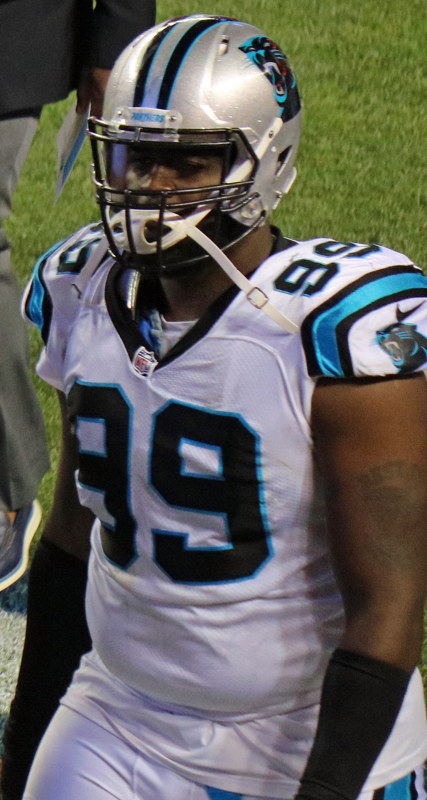 Kawann Short, a player on the National Football League.